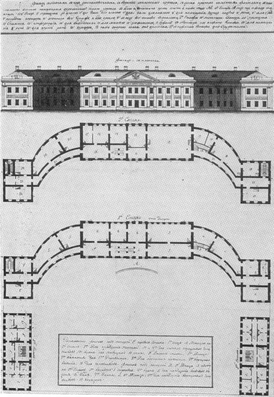 Drawing of Military School in Škłoŭ